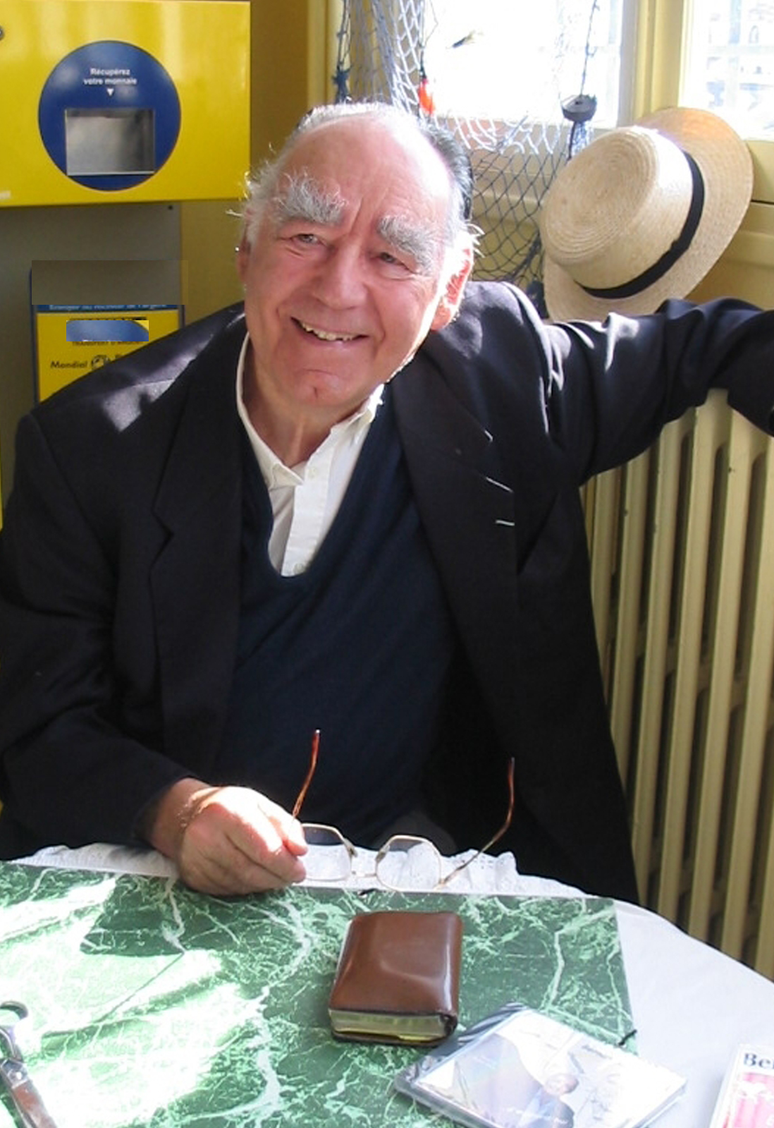 Bernard Lavalette, French songwriter and comedian, during an interview in Mers-les-Bains (France) on September 2004.